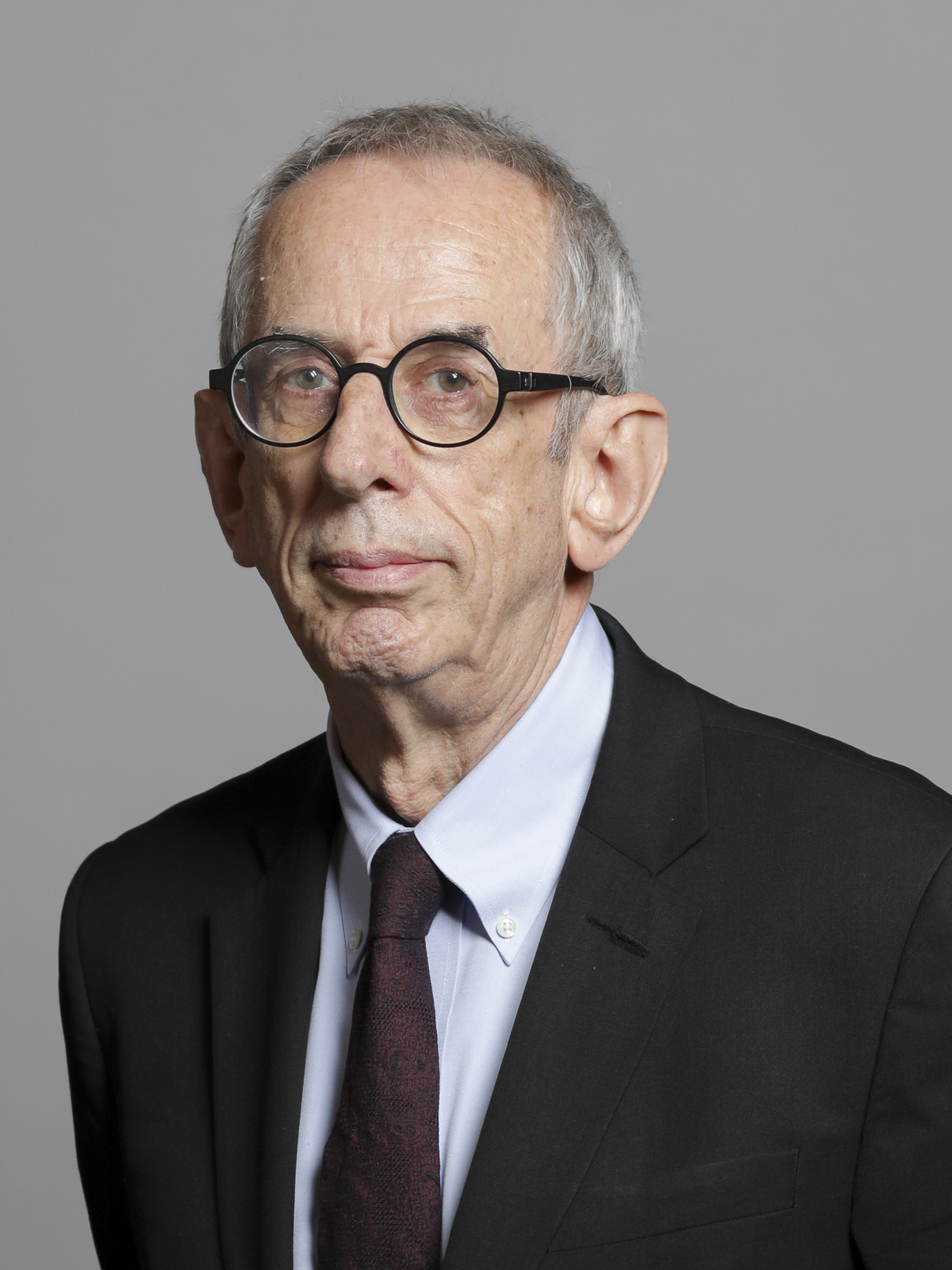 Official portrait of Lord Wilson of Dinton 3×4 portrait of Lord Wilson of Dinton